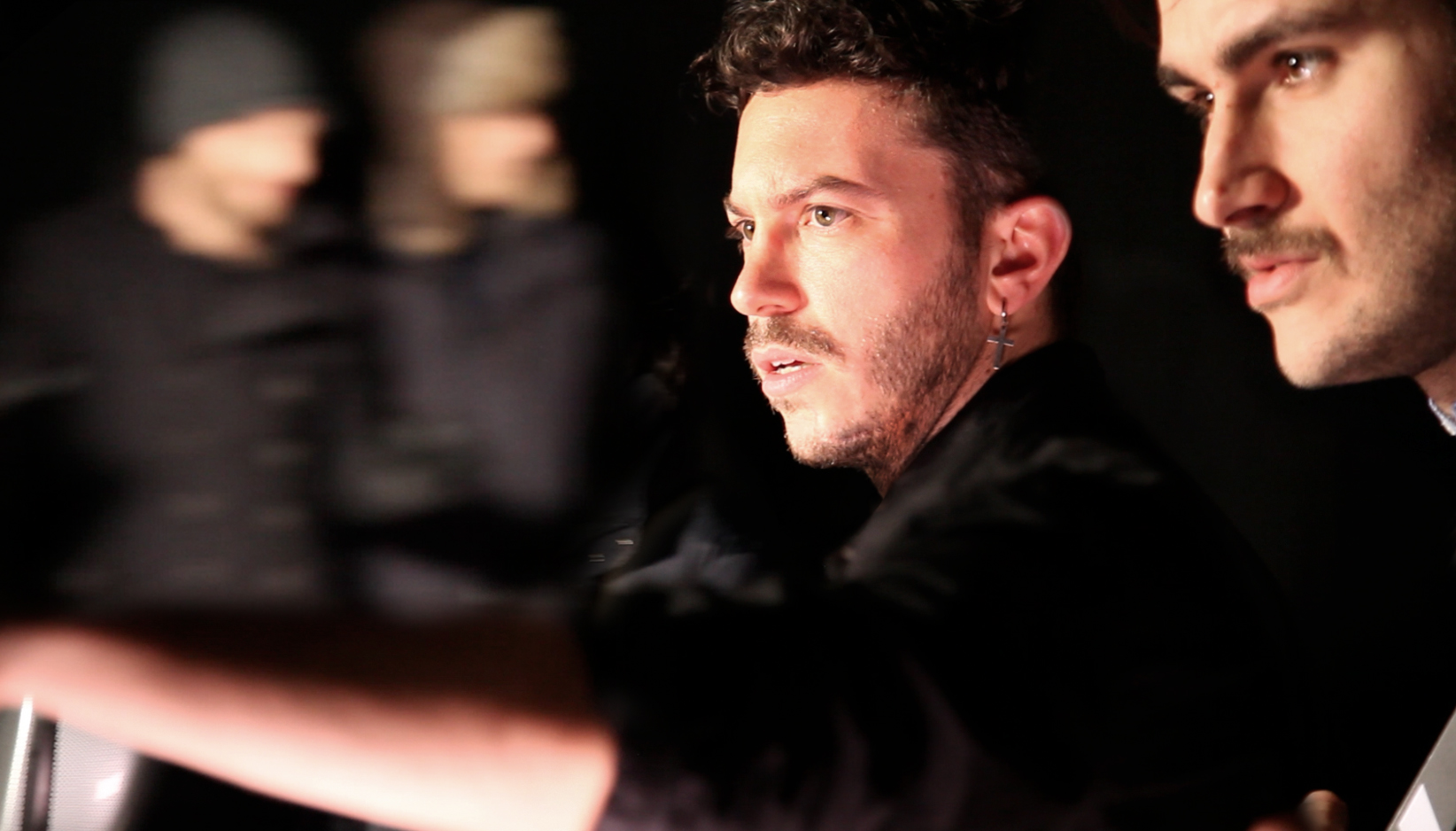 From set of the Quando Ero Giovane by Franco Battiato